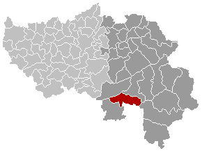 Map, municipality belgium Trois-Ponts